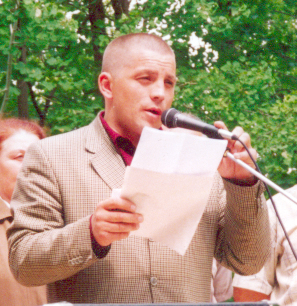 on miting